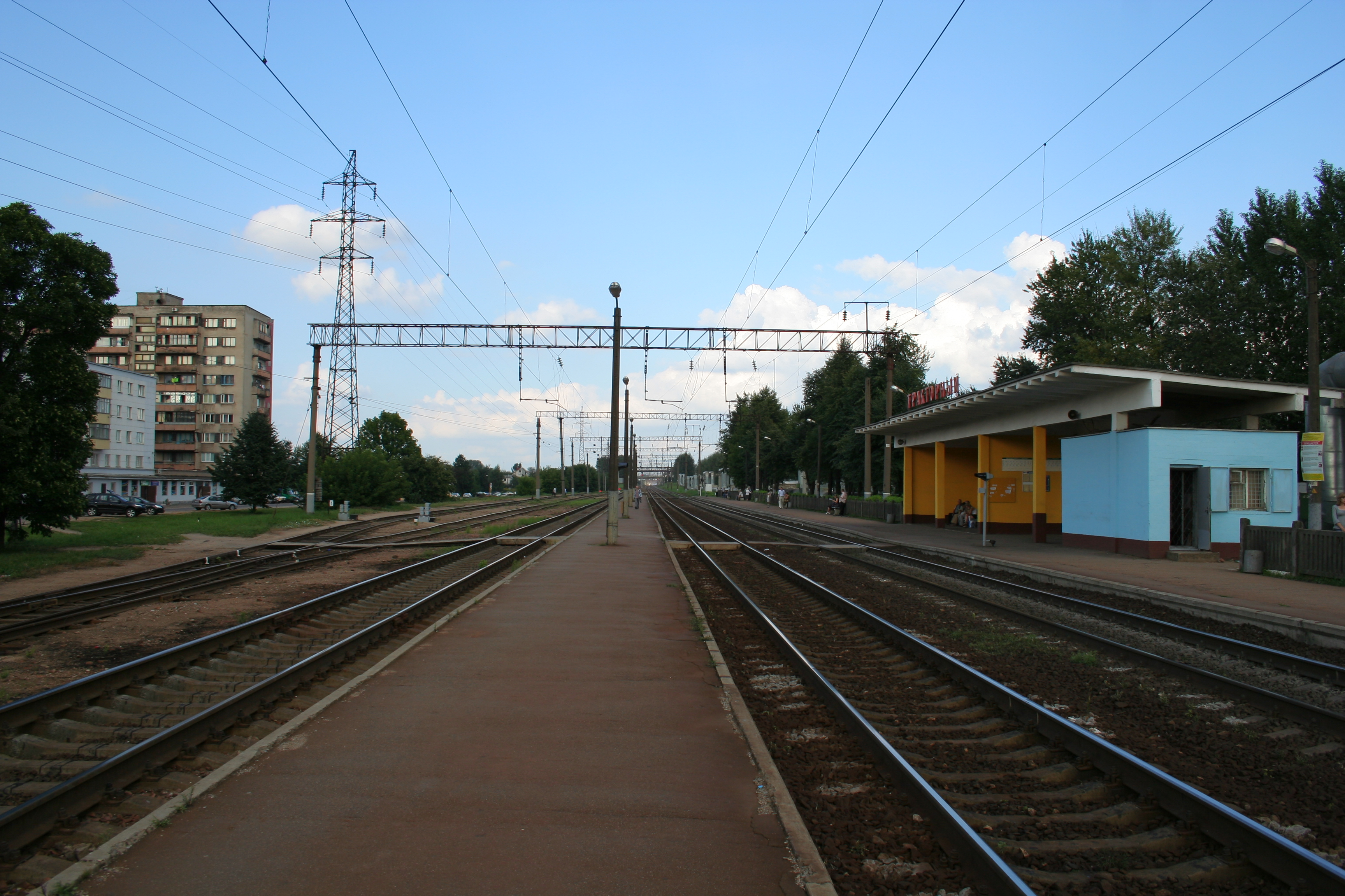 Views of Minsk (Belarus). Rail platform Traktorny.